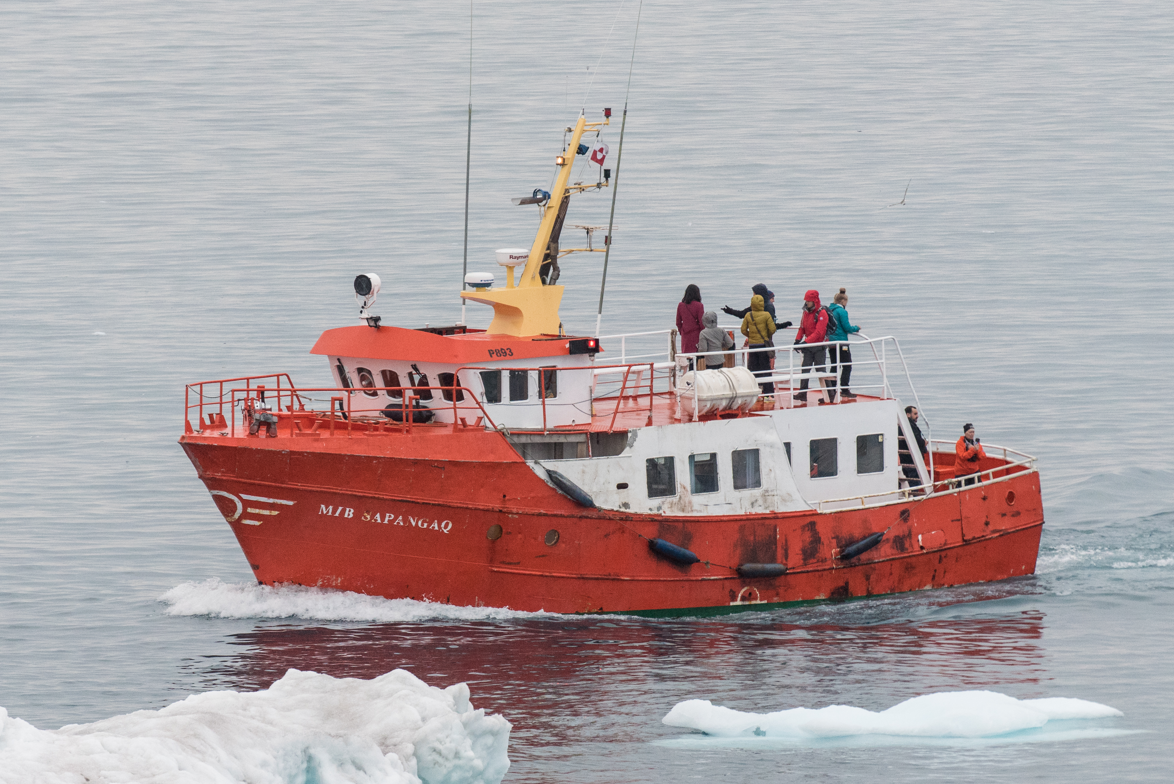 Diskoline ship, SAPANGAQ, on a whale watching tour in the bay outside Ilulissat Harbor, Greenland on August 28, 2017. Diskoline provides inter-community passenger service in the Disko Island area in the north and in South Greenland on contract with the Government of Greenland, along with tourist travel services. IMO: N/A MMSI: 331000069 Call Sign: OU4087 Registration: Greenland (GL) Owner: Diskoline AIS Vessel Type: Passenger